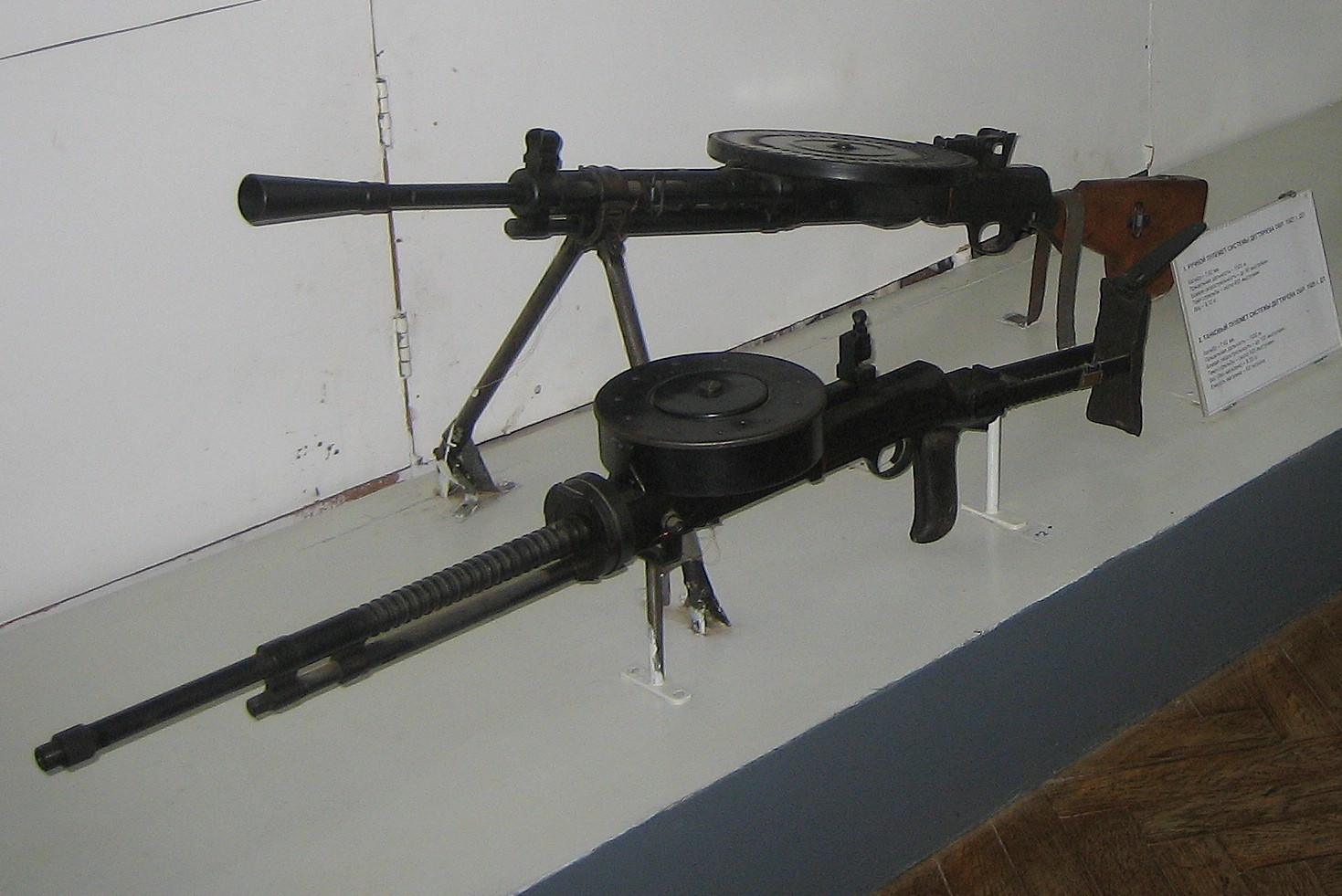 Machine gun DP (top) and DT (bottom)